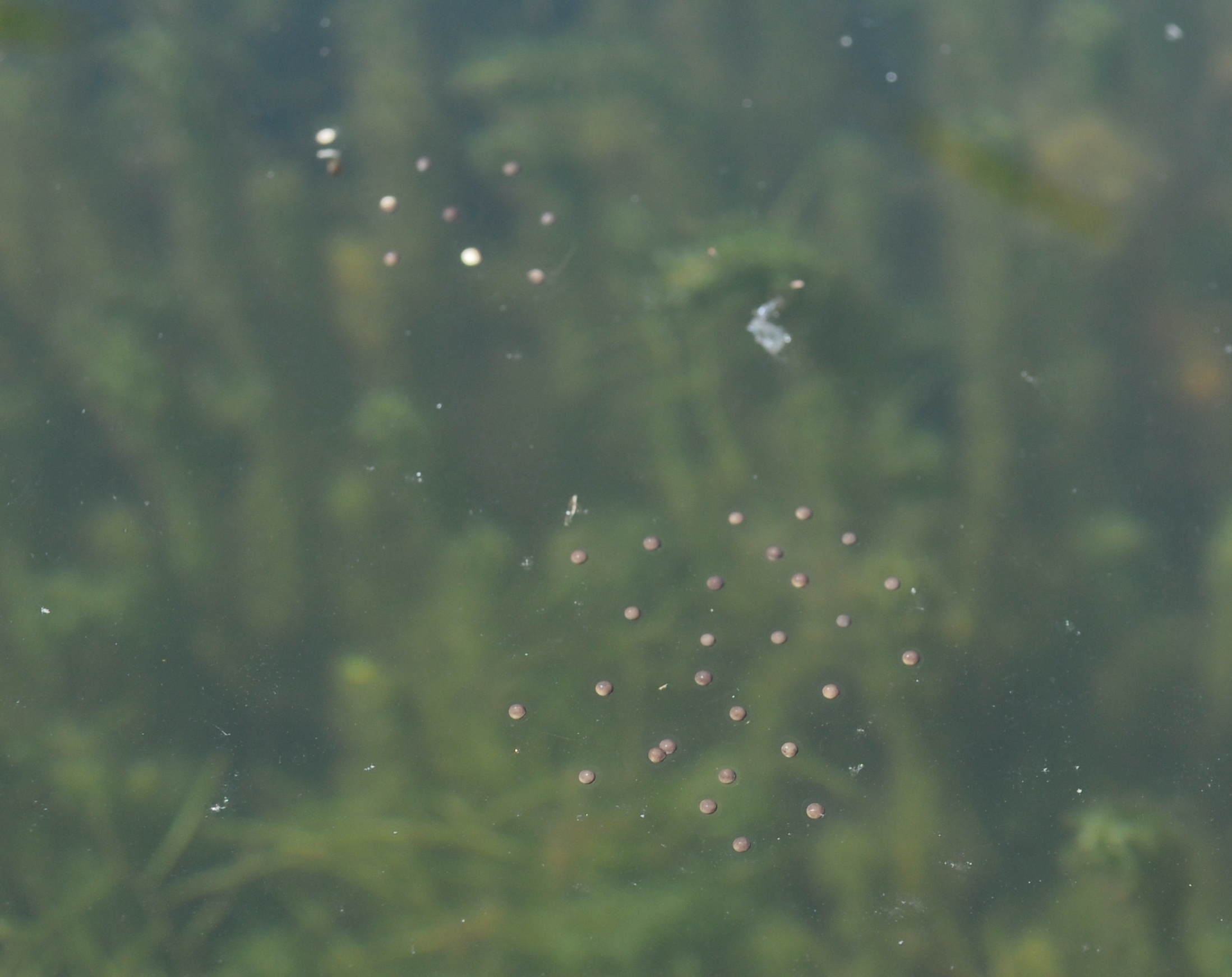 Acris crepitans blanchardi (Blanchard's cricket frog) eggs at Tyson Research Center, Missouri.